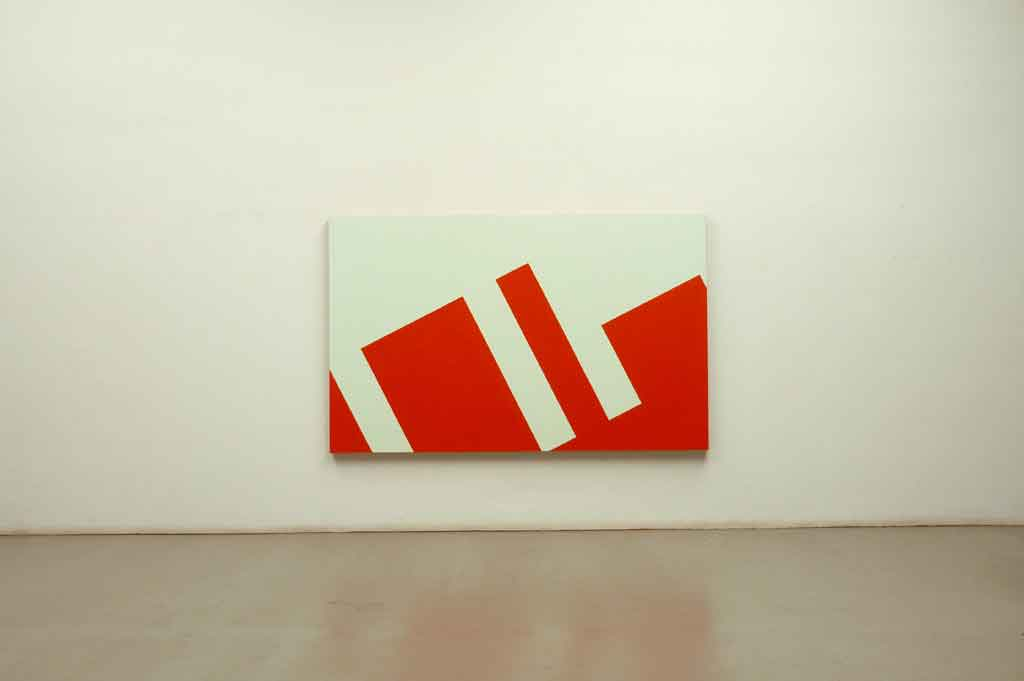 Rio de la Plata 2014, acrílico sobre lienzo, 128 x 204cm.